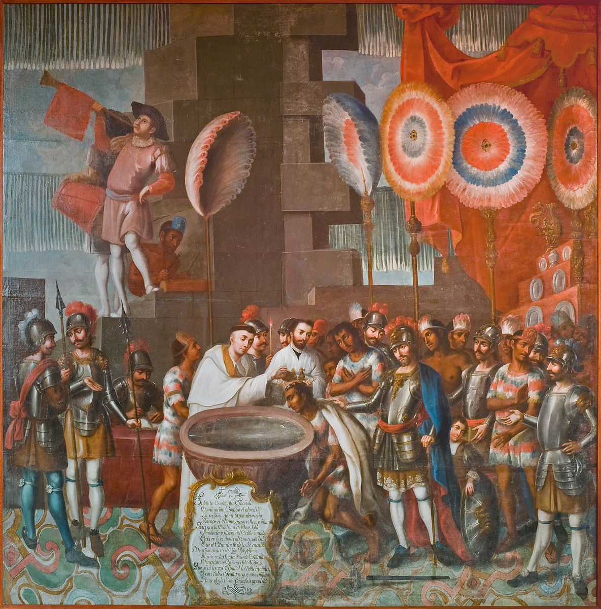 Attributed to José Vivar y Valderrama, Baptism Scene, 18th century, oil on canvas, Museo Nacional de Historia, CONACULTA–INAH, Mexico City.